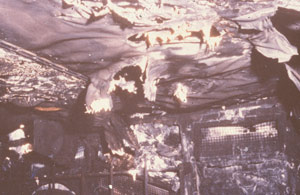 The place where the fire onboard Saudia Flight 163 burned through cargo hold C3.